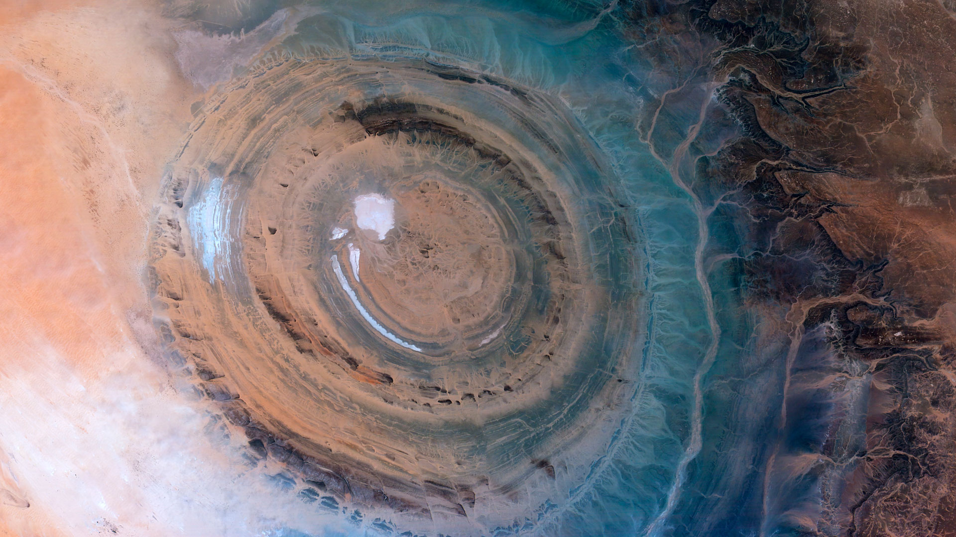 The Richat Structure in the Sahara desert, Mauritania, also known as the Eye of the Sahara, as viewed from Hodoyoshi-1 satellite. The whole structure is almost 50 km in diameter, while the center of concentric rings is 30 km width.